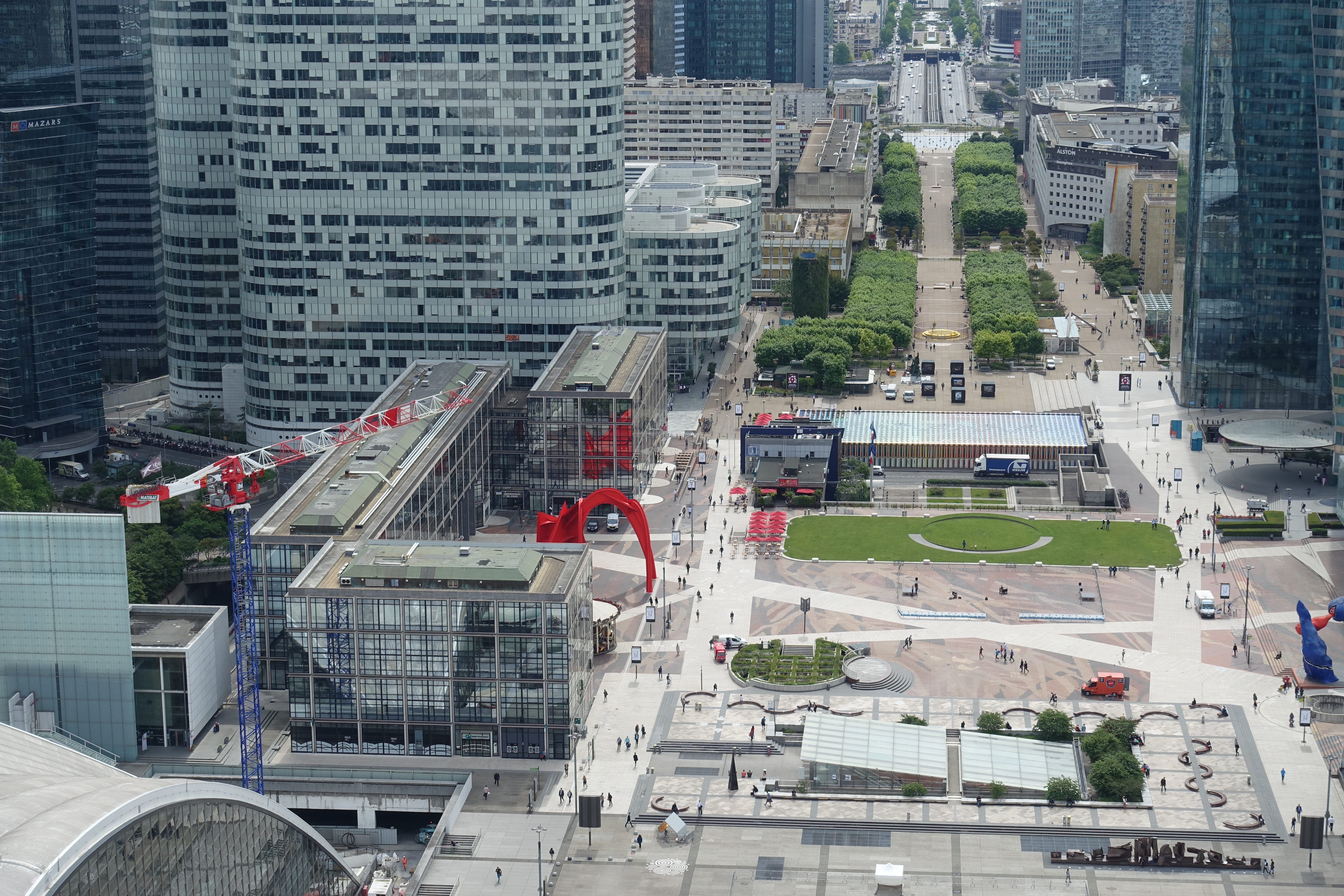 La Défense, a major business district just west of the city limits of Paris. It is part of the Paris Metropolitan Area in the Île-de-France region, located in the department Hauts-de-Seine spread across the commune of Courbevoie, as well as parts of Puteaux and Nanterre.